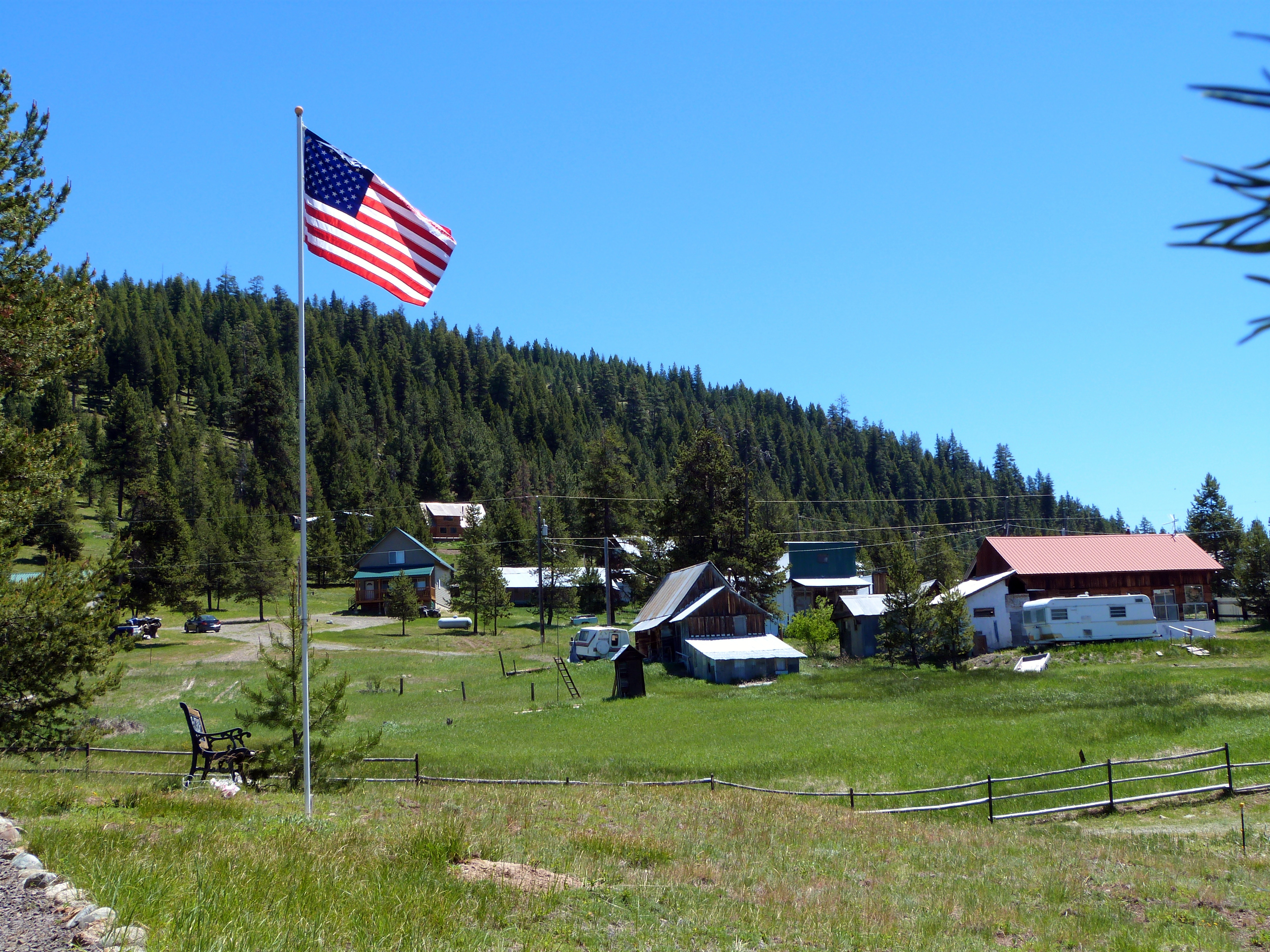 A view of the very small town of Granite, Oregon, United States, as seen from the City of Granite Cemetery.